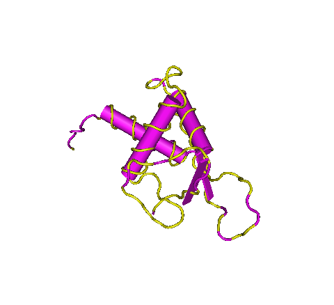 A solution structure for the mRNA secondary structure of the DEP Domain in humans.